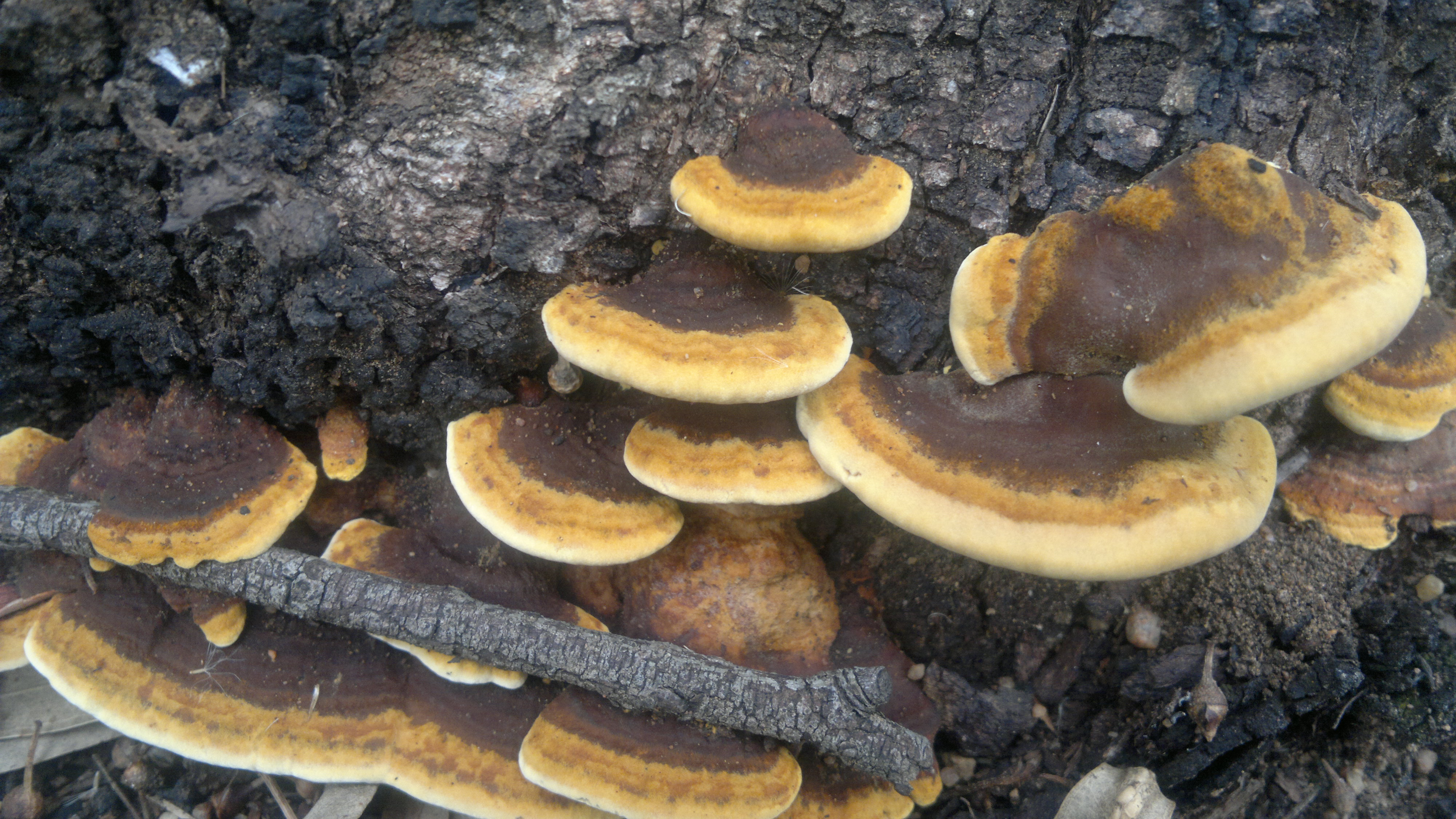 Trametes cingulata Berk. Image location: Pyrimid, Pretoria, Gauteng, South Africa White spore print and white rot caused. I shall upload my field guide pictures in a few days from now. The last photo is of the same group of brackets after a 3-5 day drier weather. Used references: G.C.A VAN DER WESTHUIZEN & ALBERT EICKER FIELD GUIDE MUSHROOMS OF SOUTHERN AFRICA PAGE 156 For more information about this, see the observation page at Mushroom Observer.